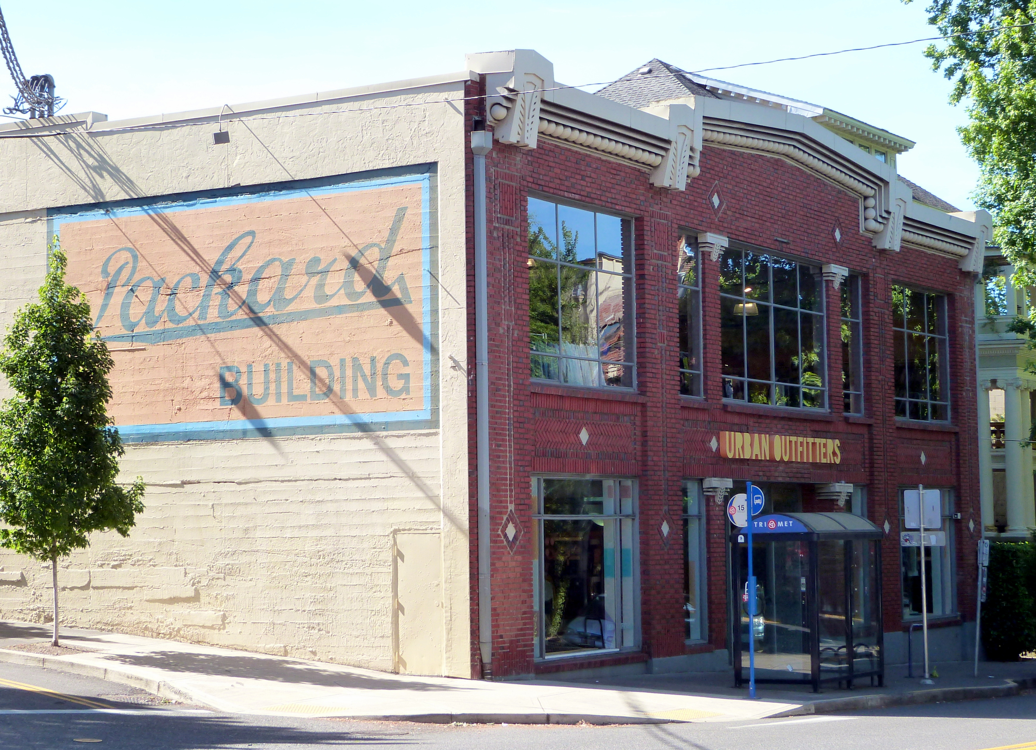 The historic Packard Service Building (built 1910), located at 121 Northwest 23rd Avenue in Portland, Oregon, United States, is listed on the US National Register of Historic Places. It is additionally listed as a contributing resource in the Alphabet Historic District. The historic district is also listed on the National Register.